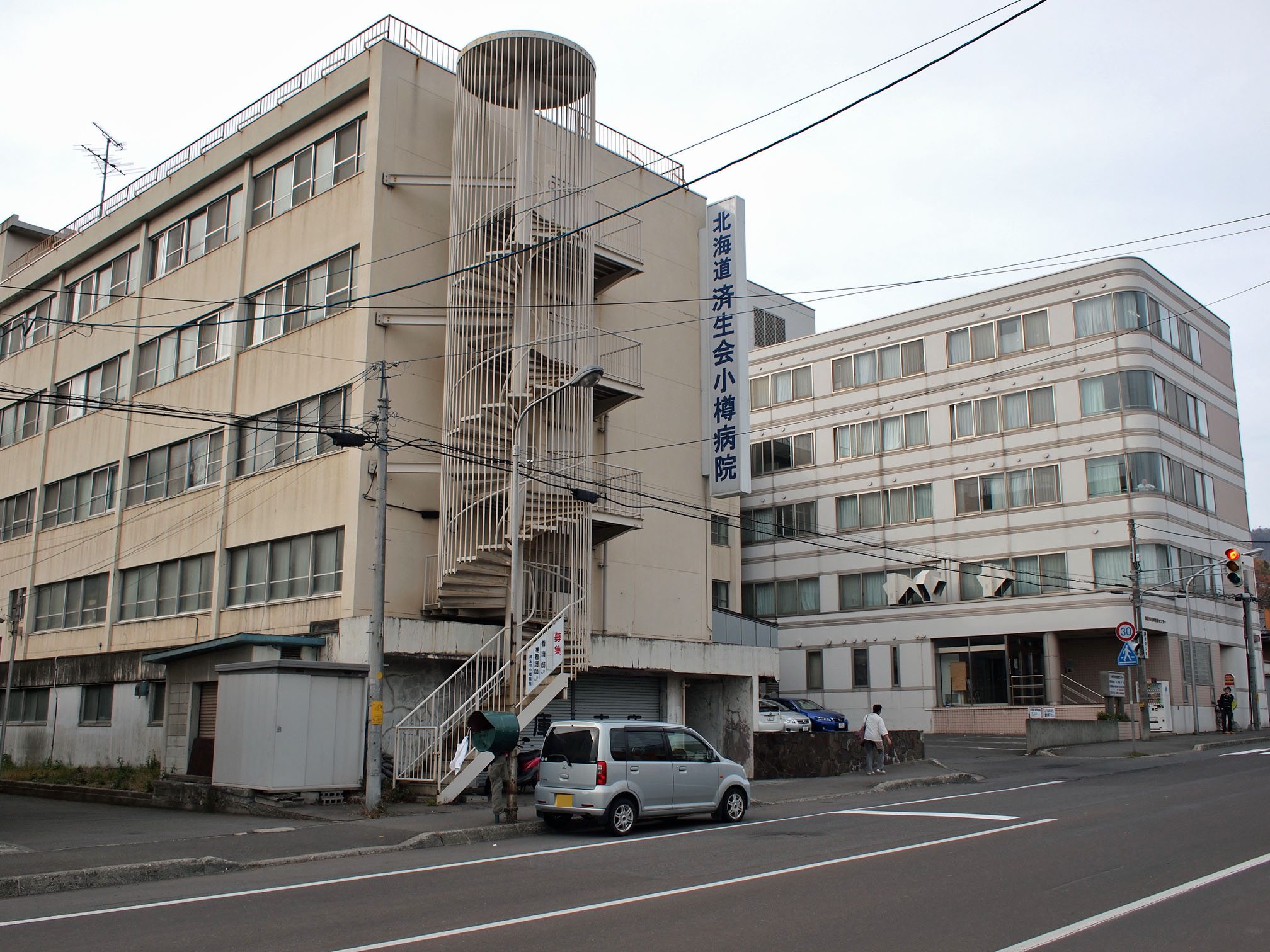 Hokkaido Saiseikai Otaru Hospital, Otaru, Hokkaido, Japan